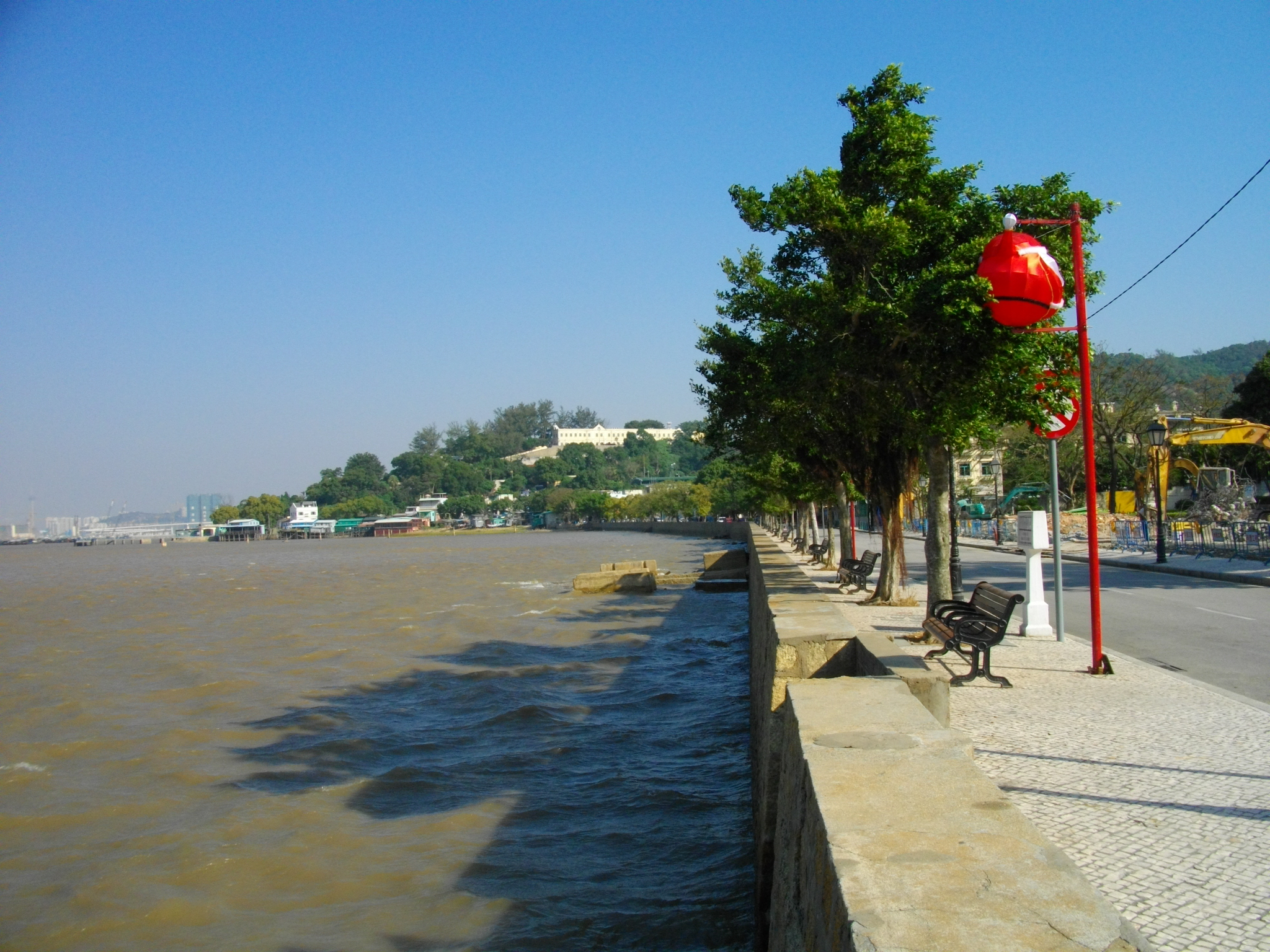 Coloane and coastline